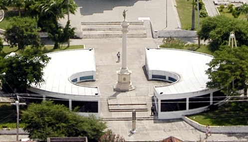 eclipse museum